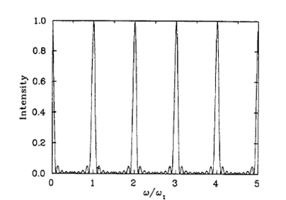 Peak_frequency_by_undulator.png